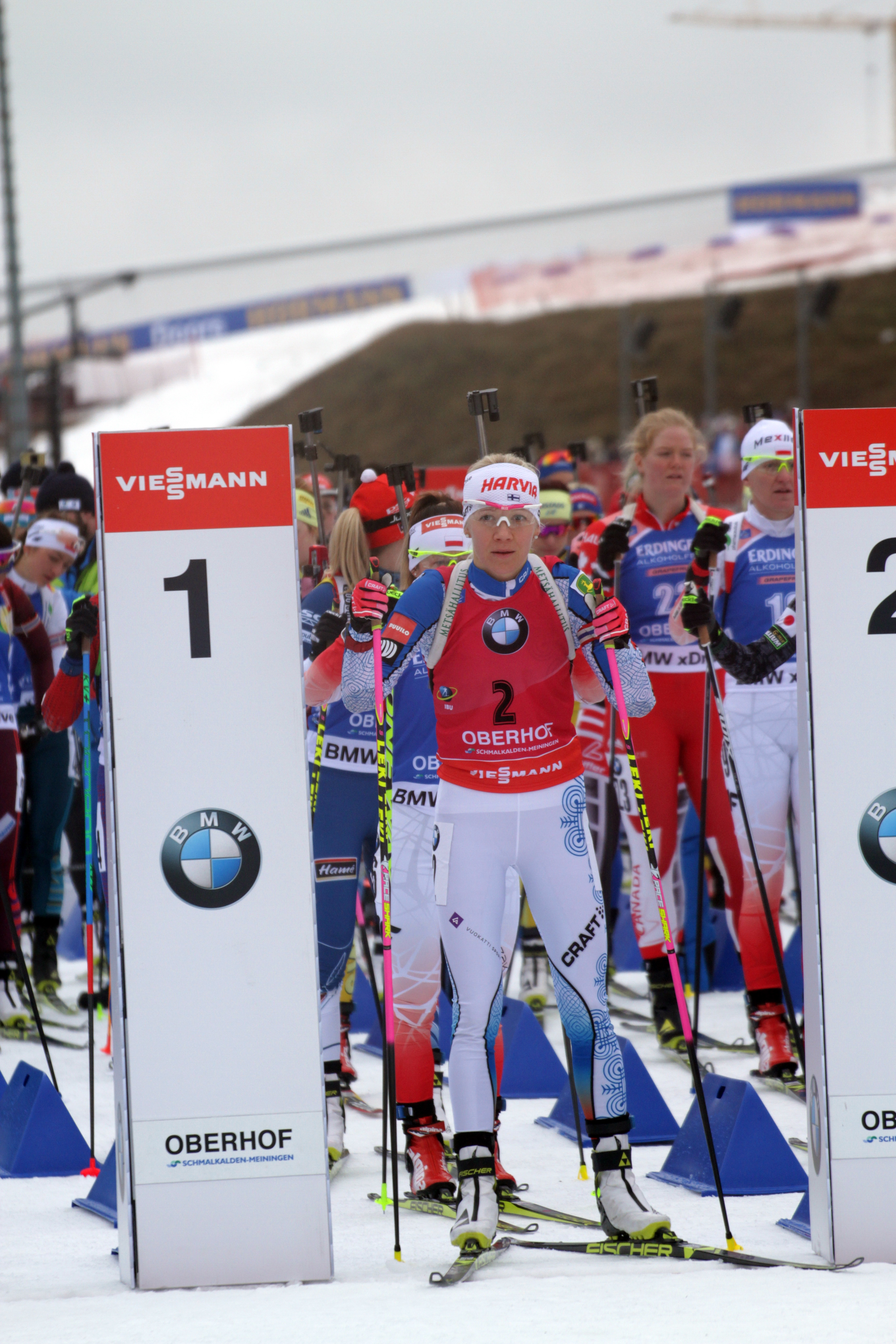 2018 Oberhof Biathlon World Cup - Pursuit Women